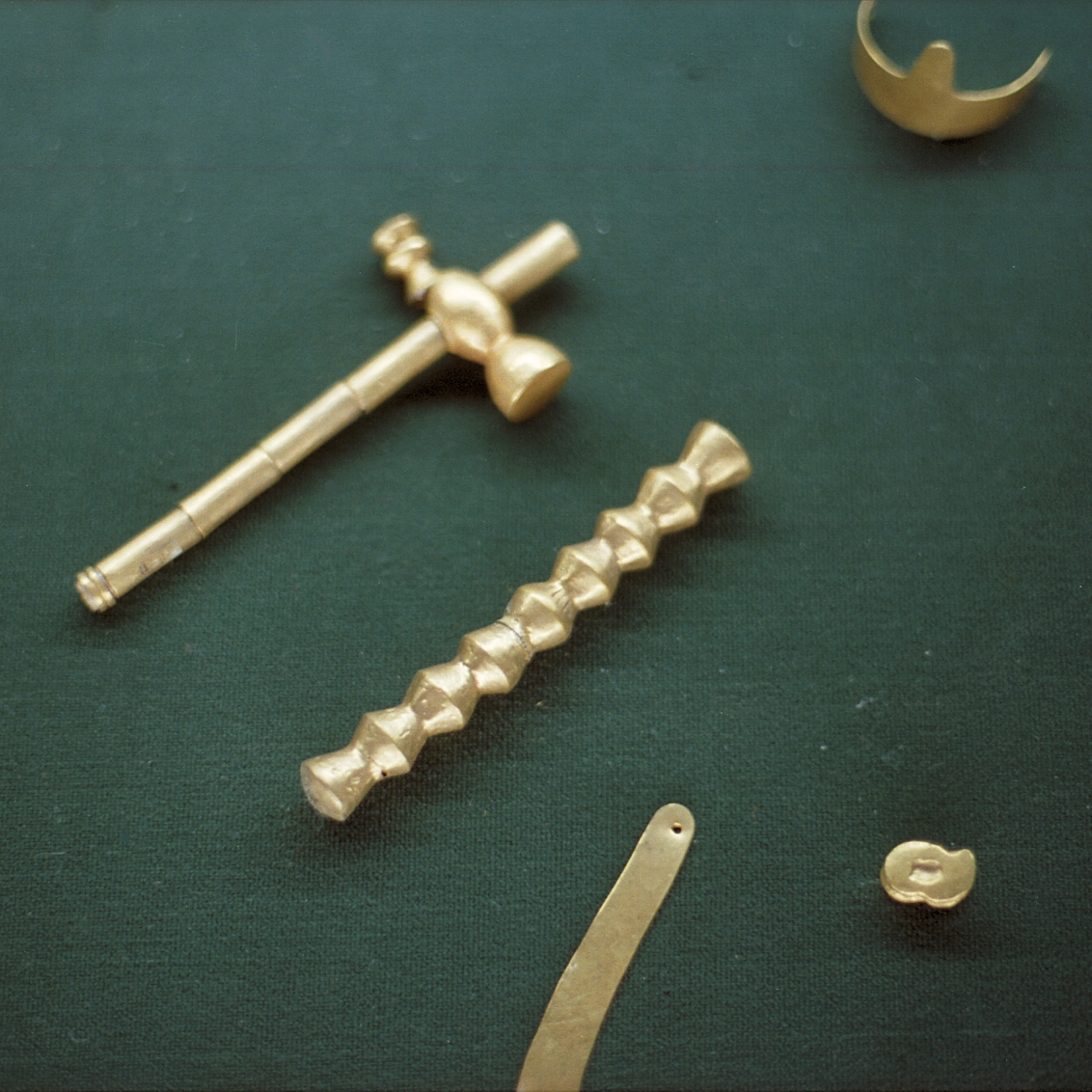 Insignias of power. Hammer, scepter and jewellery, gold. Burial place near Varna. Chalcolithic, 4600-4200 BC. Varna Archaeological Museum.